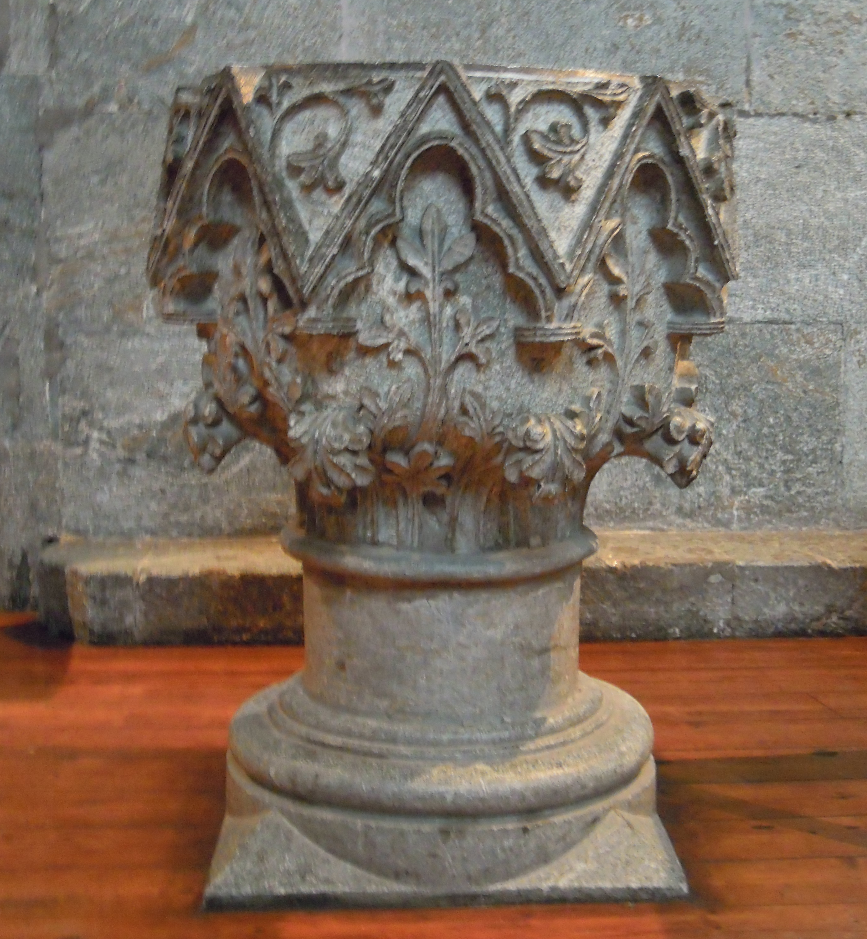 Baptismal font in Stavanger Cathedral, Norway. Probably periode 1250-1300.